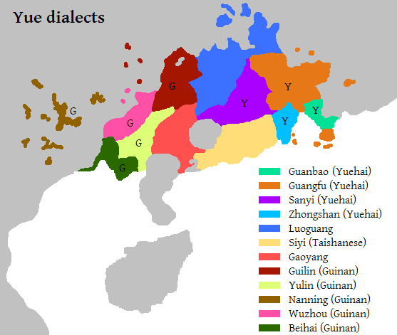 Map showing geographic distribution and extent of Yue (Cantonese) dialects.